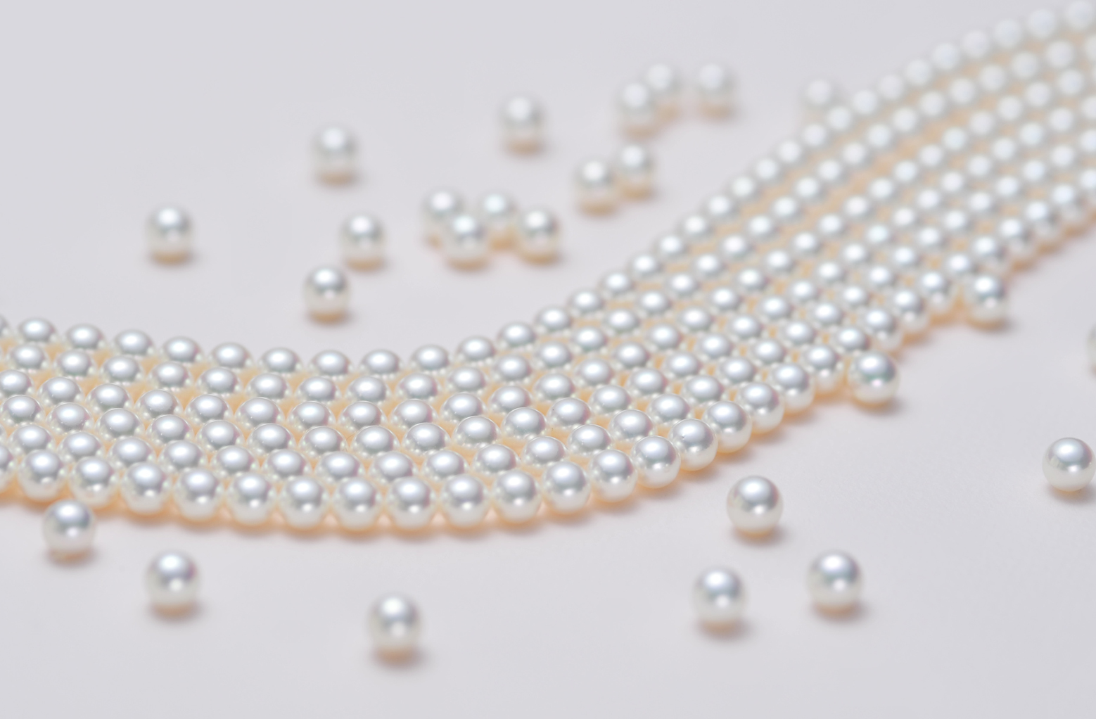 Pearl